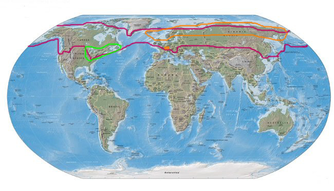 Approximate map of cranberry ranges:Red: Common cranberryOrange: Small cranberryGreen: American cranberry Base map from Earth